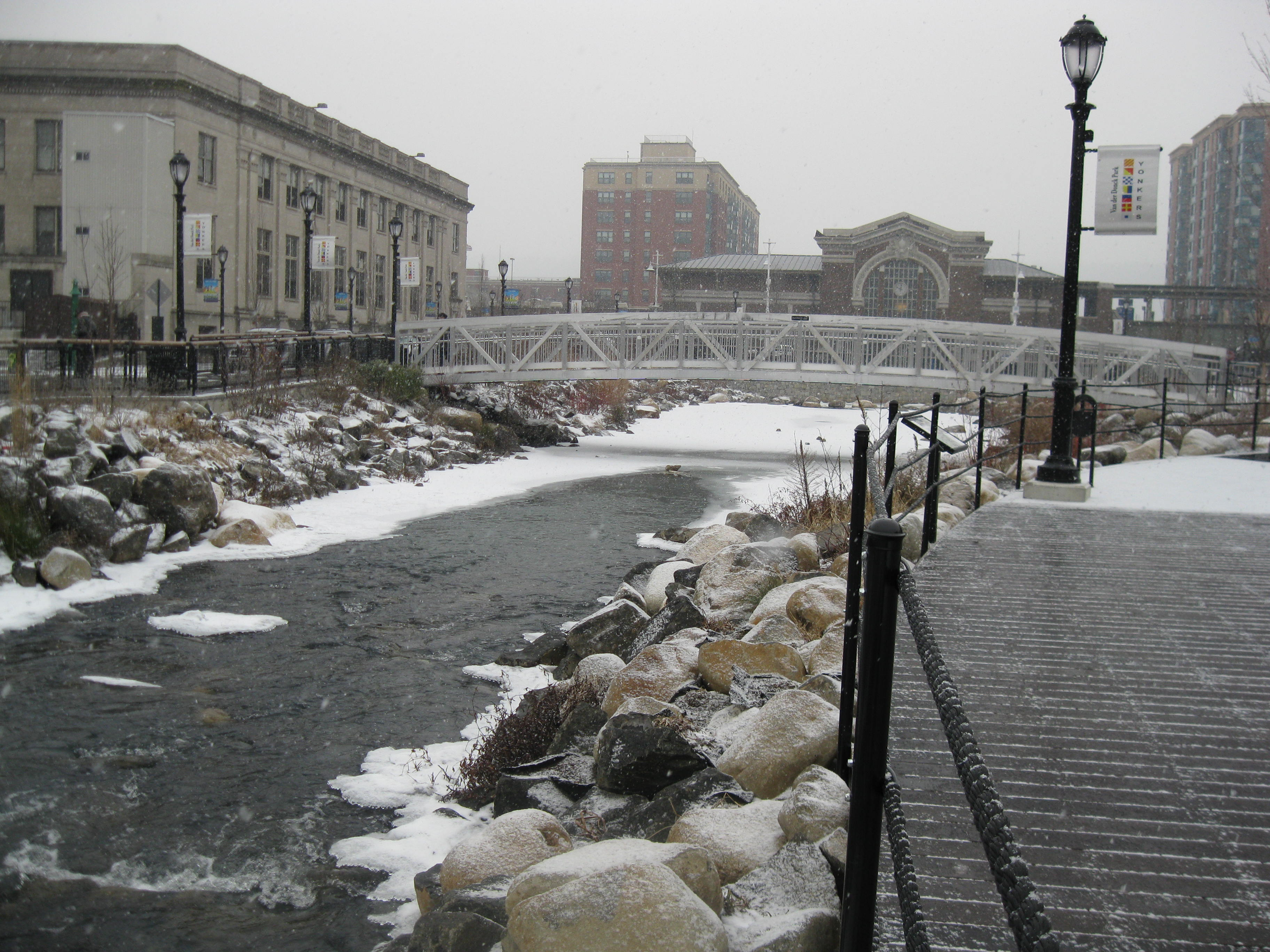 Daylighted Saw Mill River, after being unearthed from the parking lot covering it. US Post Office to left, pedestrian bridge and train station ahead, and boardwalk of Van Der Donck Park on right.